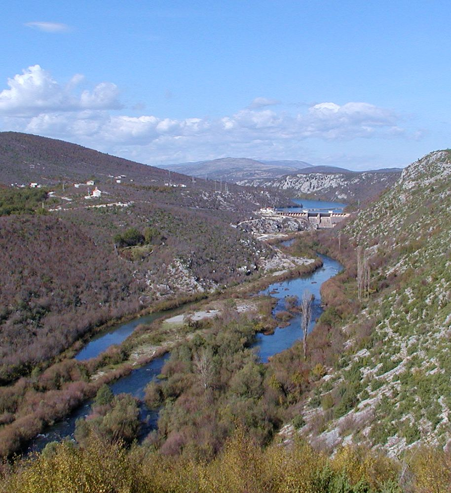 One of several Cetina river dams. Authors: Zoran Knez & Dražen Radujkov